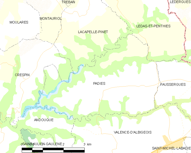 Map of French municipality Padiès